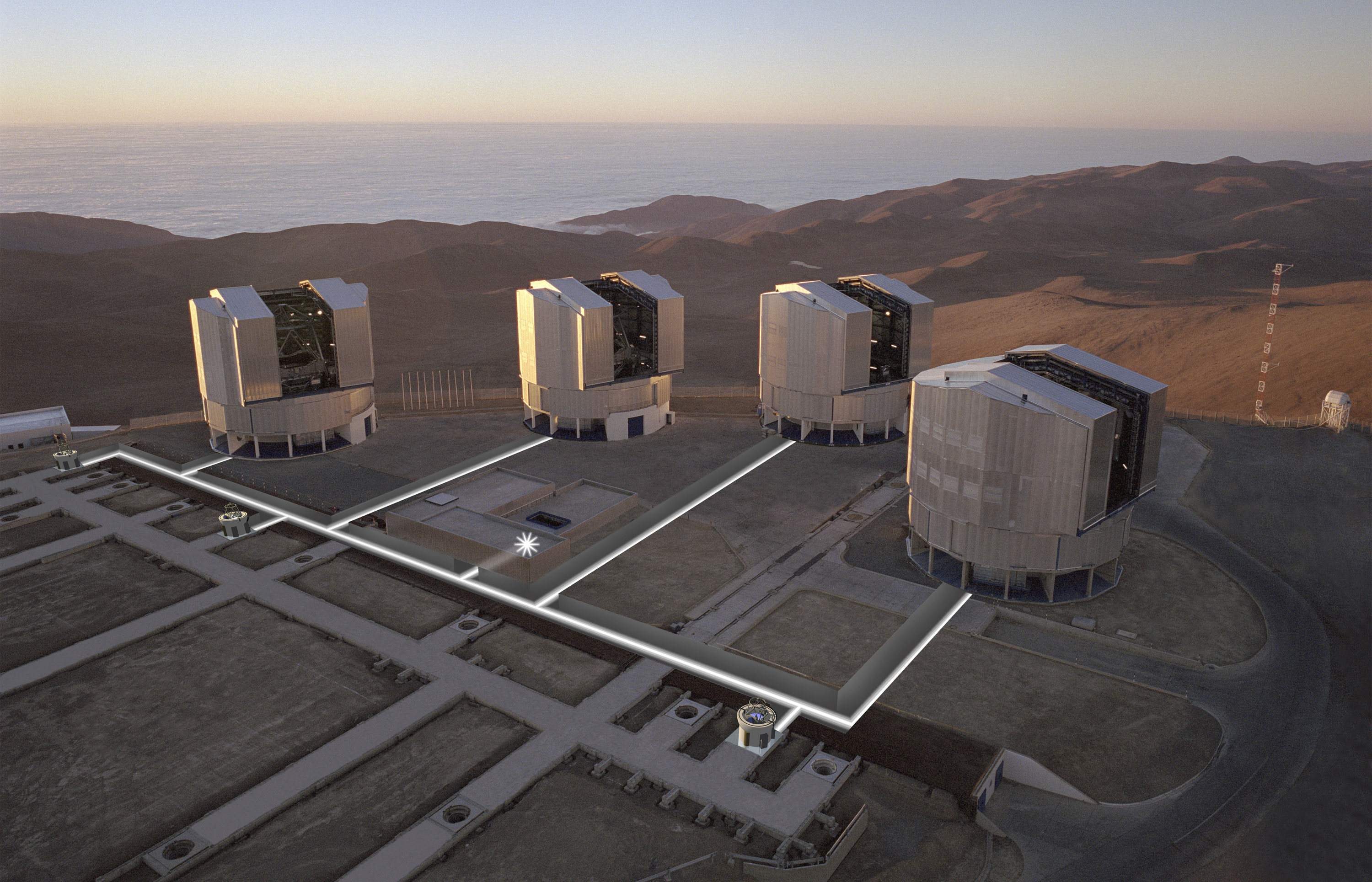 Aerial view of the observing platform on the top of Cerro Paranal, with the four enclosures for the 8.2-m Unit Telescopes (UTs) and various installations for the VLT Interferometer (VLTI). Three 1.8-m VLTI Auxiliary Telescopes (ATs) and paths of the light beams have been superimposed on the photo. Also seen are some of the 30 "stations" where the ATs will be positioned for observations and from where the light beams from the telescopes can enter the Interferometric Tunnel below. The straight structures are supports for the rails on which the telescopes can move from one station to another. The Interferometric Laboratory (partly subterranean) is at the centre of the platform.